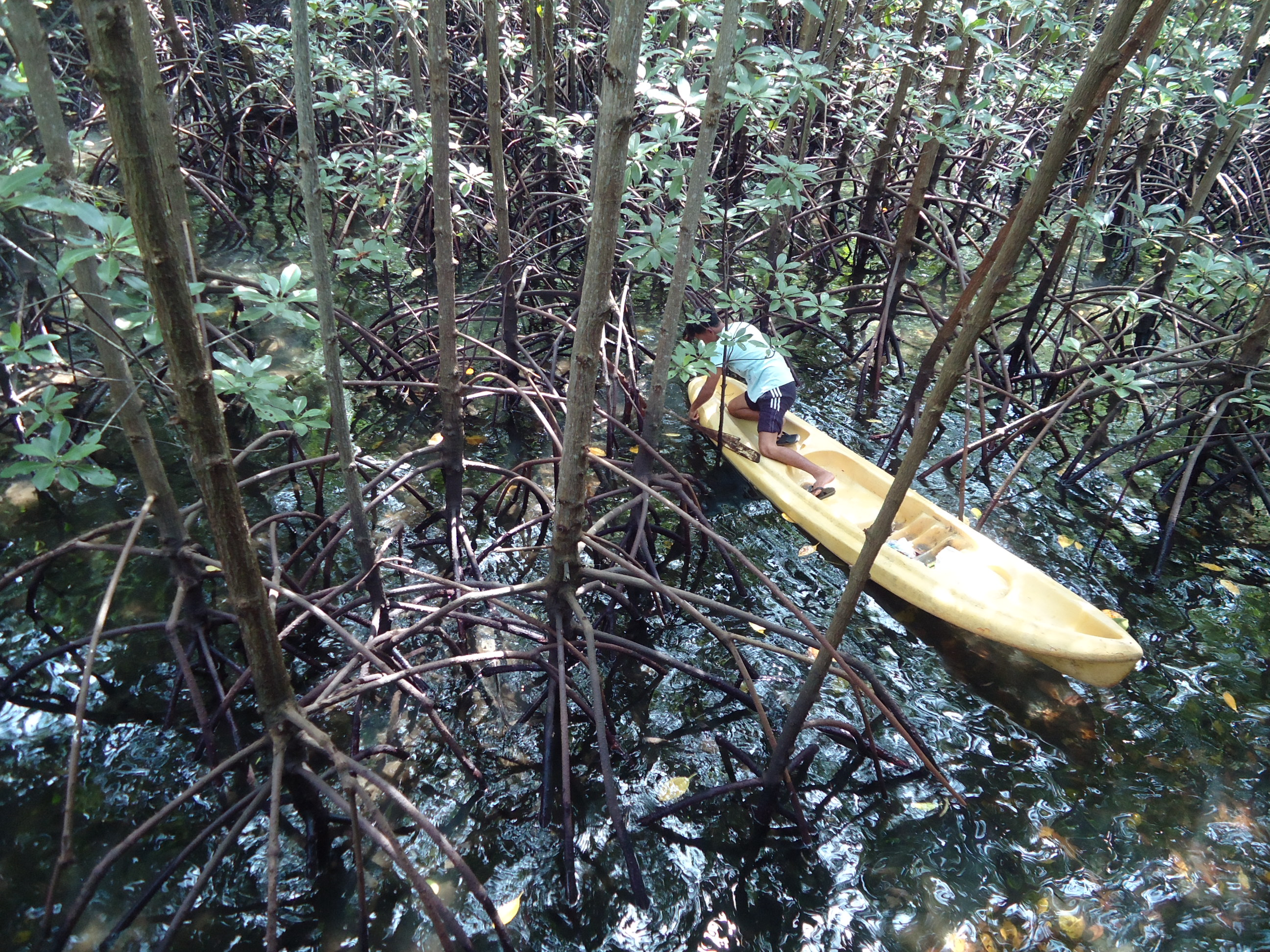 A native in Palawan Island seeking for grubs in the roots of mangrove trees. The whole island is considered a protected area with native people having the right of the island.